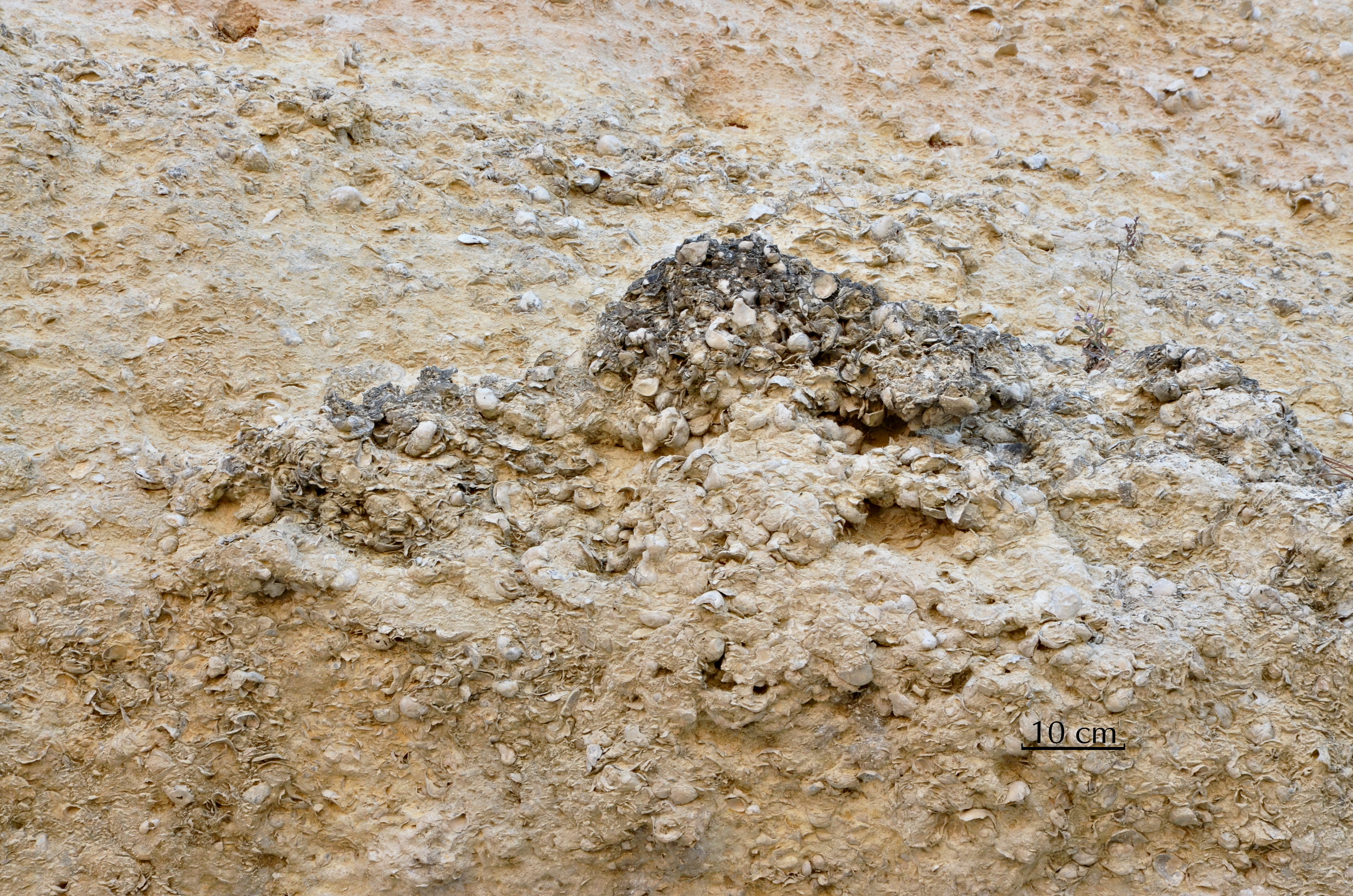 Shelly limestone of a cliff, beach of Suzac, Meschers-sur-Gironde, Charente-Maritime, France.